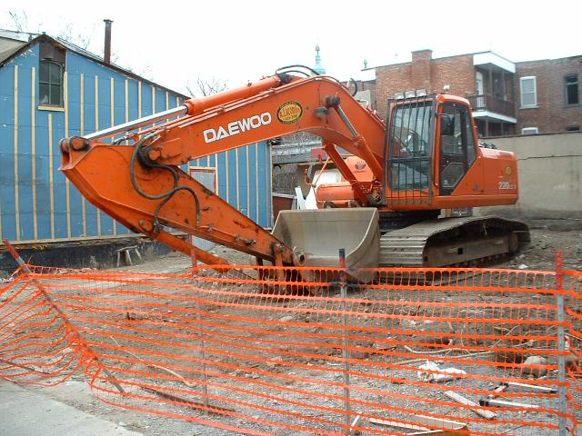 A parked excavator in Montreal.